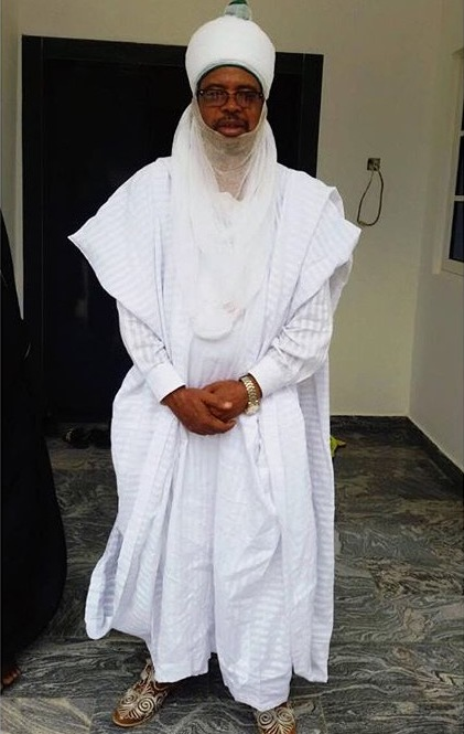 Picture taken 24th August, 2016.